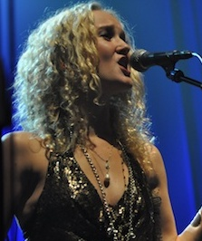 Pearl Aday - Live in Concert (photo by Scott Dudelson)